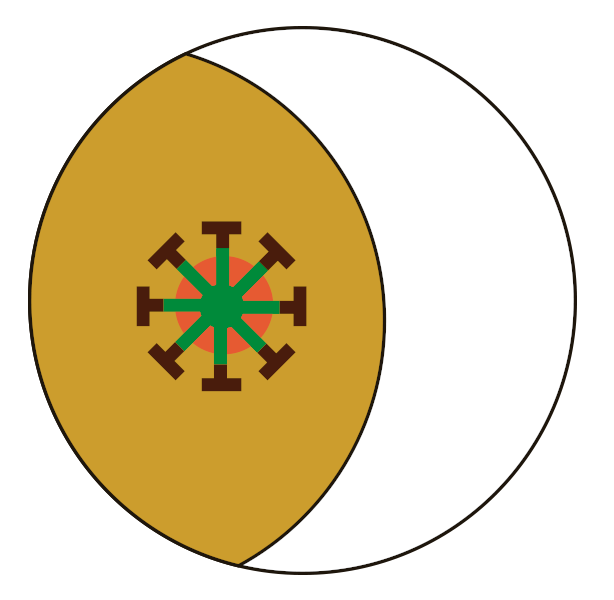 Seax-Wica tradition logo